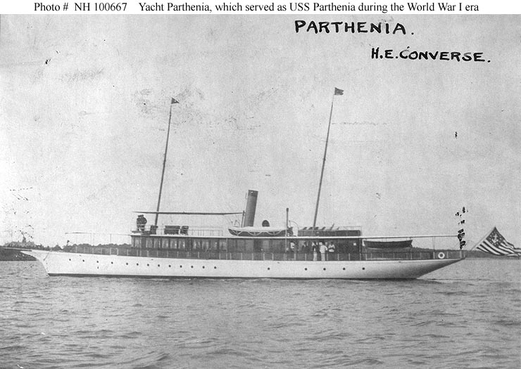 The steam yacht Parthenia prior to her United States Navy service as the patrol vessel